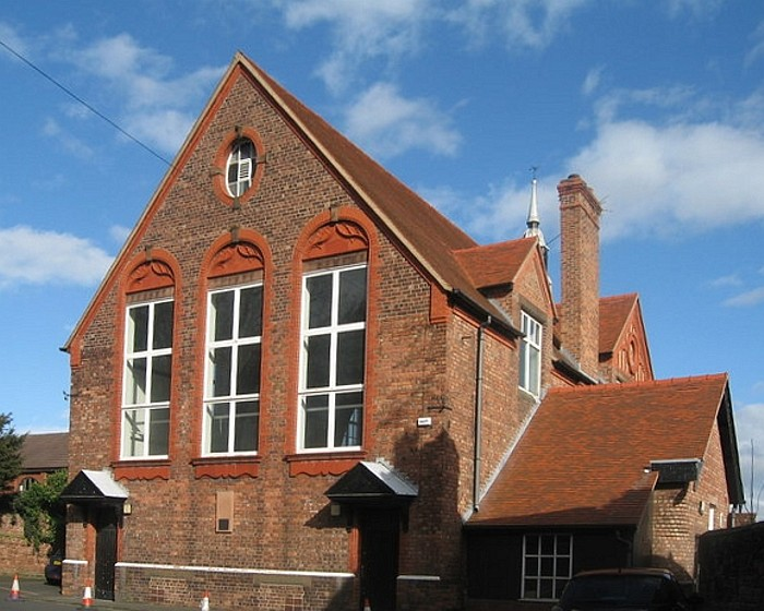 St Peter's Church Hall St Peter's Church Hall is where John Lennon and Paul McCartney first met on the 6th July 1957. Whilst waiting to play at the church dance that night, John Lennon and the other members of the Quarrymen were introduced to the young Paul McCartney by a mutual friend.